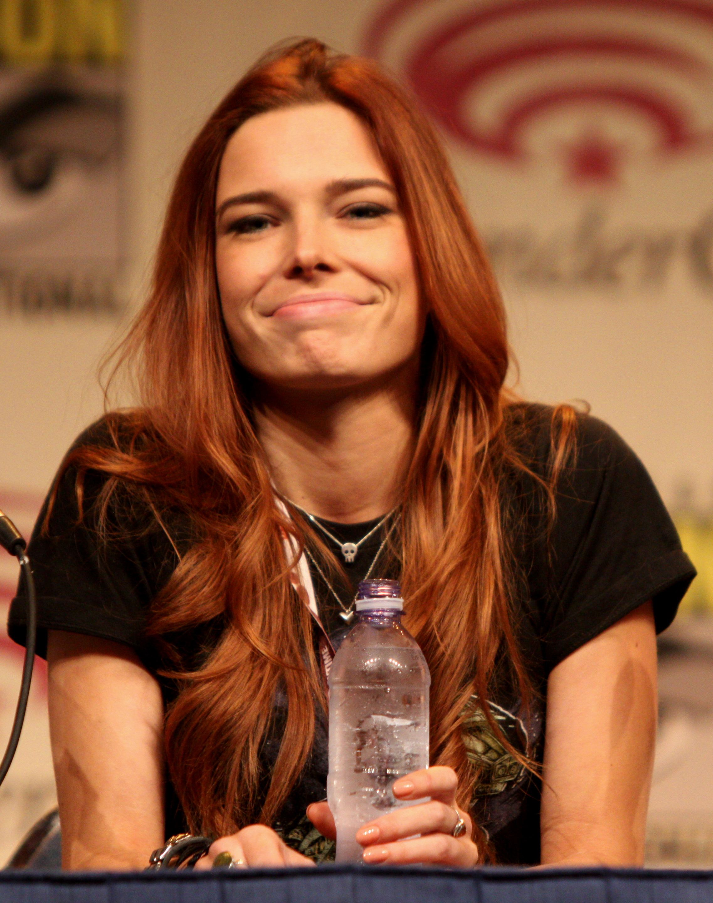 Chloe Dykstra speaking at Wondercon 2012 in Anaheim, California on March 16, 2012.